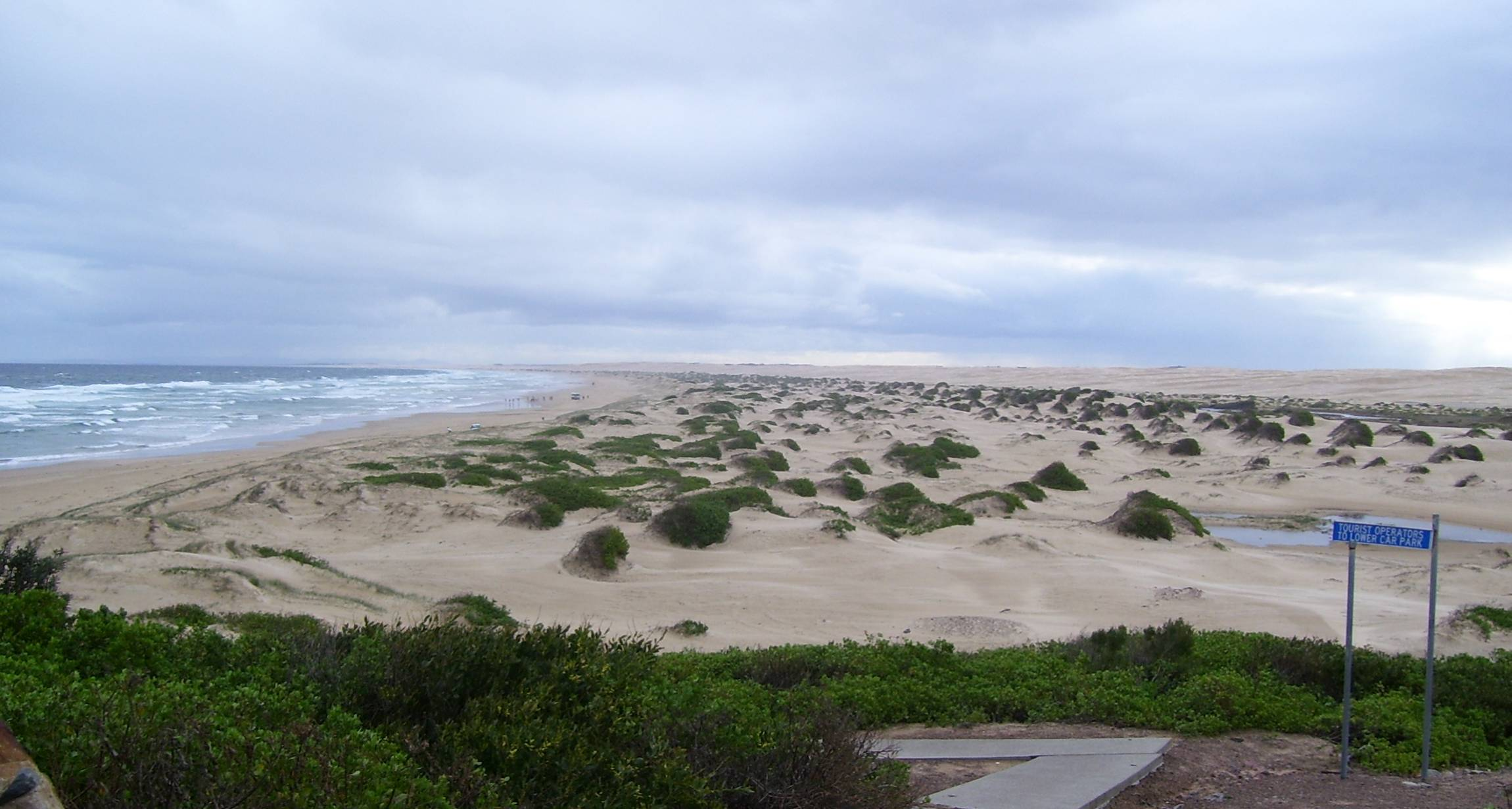 Stockton beach, New South Wales. Northern end of the beach at Anna Bay taken from adjacent to the carpark.